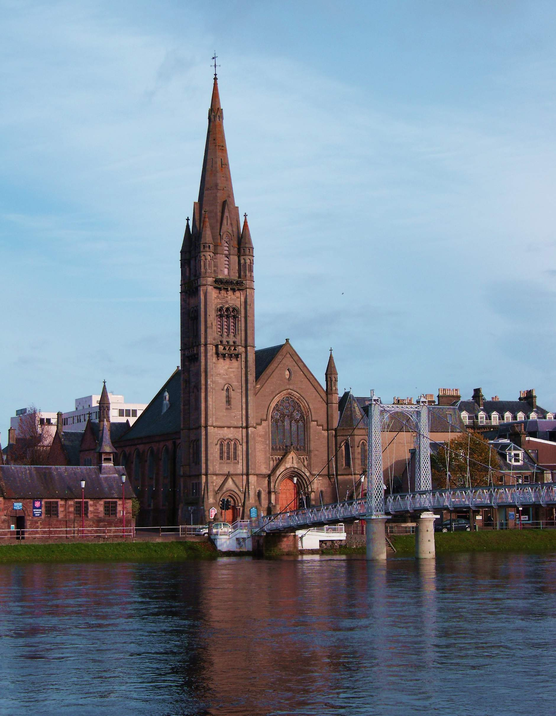 Opened in 1893, The Church was designed by Dr. Alexander Ross and has a capacity of 1800. (He was also the architect of Inverness Cathedral). A sunny pleasant (and not too chilly) afternoon in Inverness today - and it's nearly the end of October!! The River -as ever - was looking pretty and I was free for a few minutes while I "circled" waiting for the shopper to be collected. so I took the opportunity for a quick detour along Huntly Street, the road along the west side of the river. Although I have featured most of these locations before, the light on the stonework, the colour of the grass, the sky reflecting on the river, the level of the river and the texture of the sky are never the same two days running. This is "my" city - enjoy!!